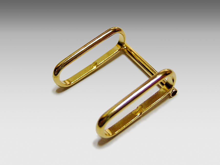 A Metal Work Which Turned A Brooch Into An Obidome